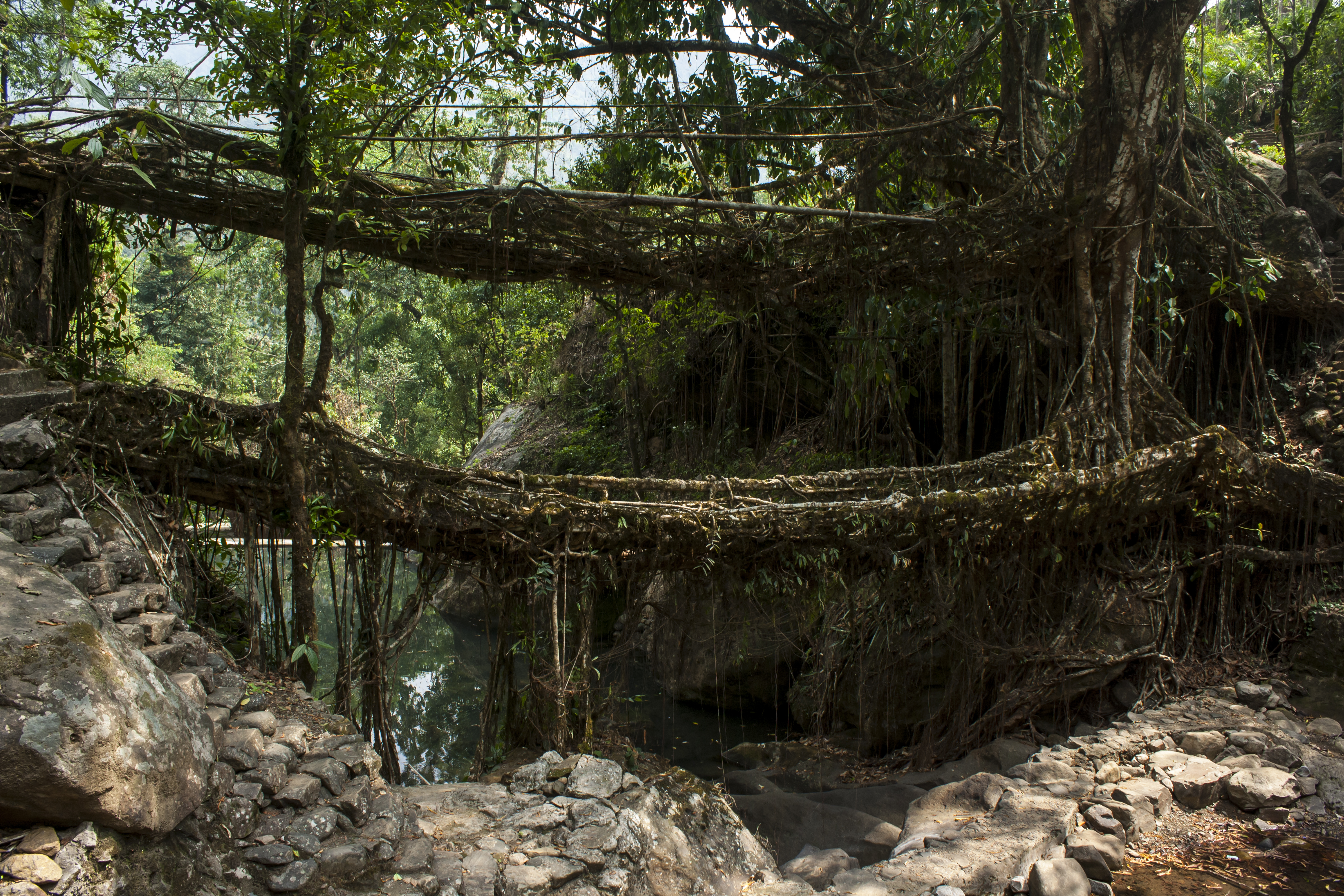 Living root bridge in Nongriat, near Sohra, Meghalaya.